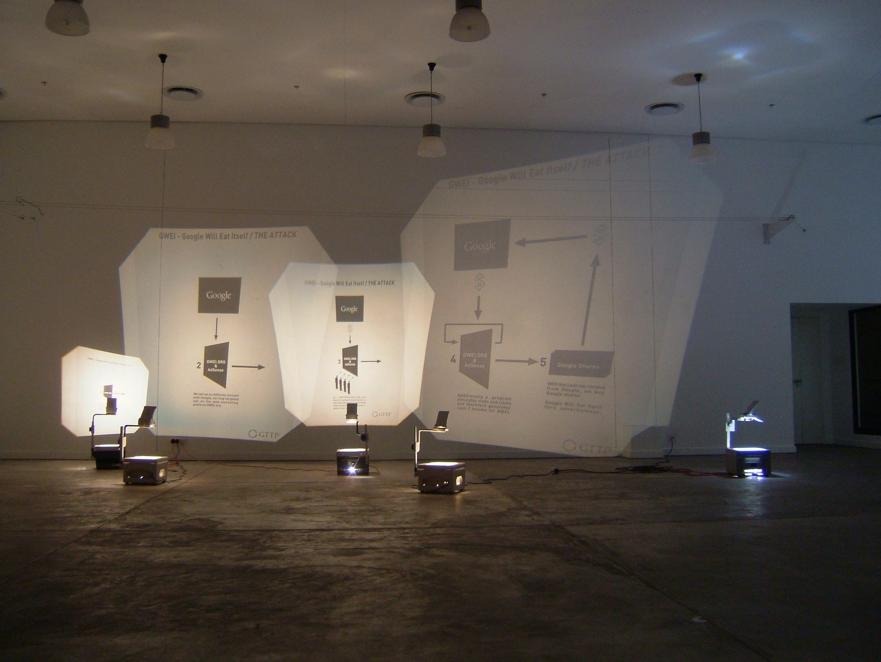 We generate money by serving Google text advertisements on a network of hidden Websites. With this money we automatically buy Google shares. We buy Google via their own advertisement! Google eats itself - but in the end "we" own it! View of the overhead projector installation in South Africa.